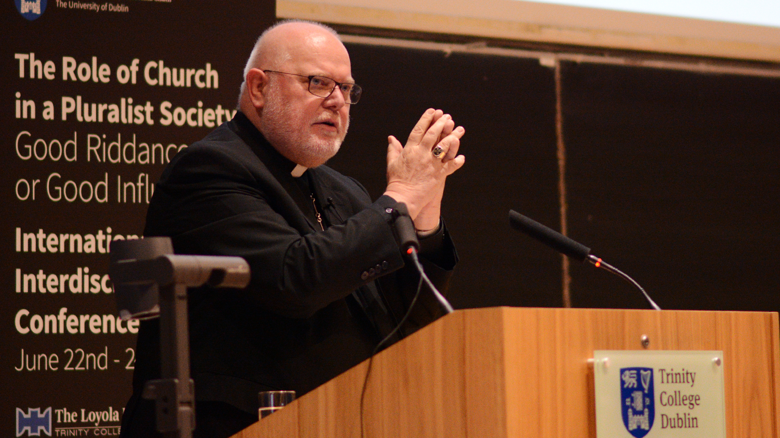 Speaking in June 2016 at a conference in Trinity College Dublin, organised by the Loyola Institute.